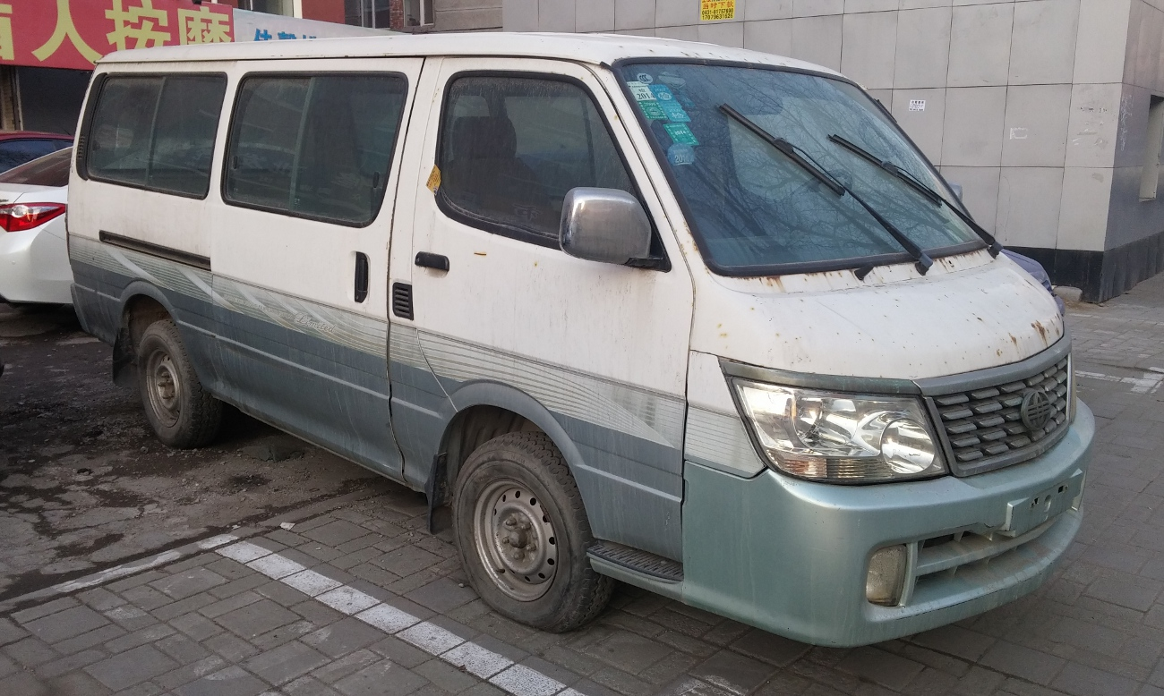 Jincheng GDQ6480A2 photographed in Changchun, Jilin province, China.